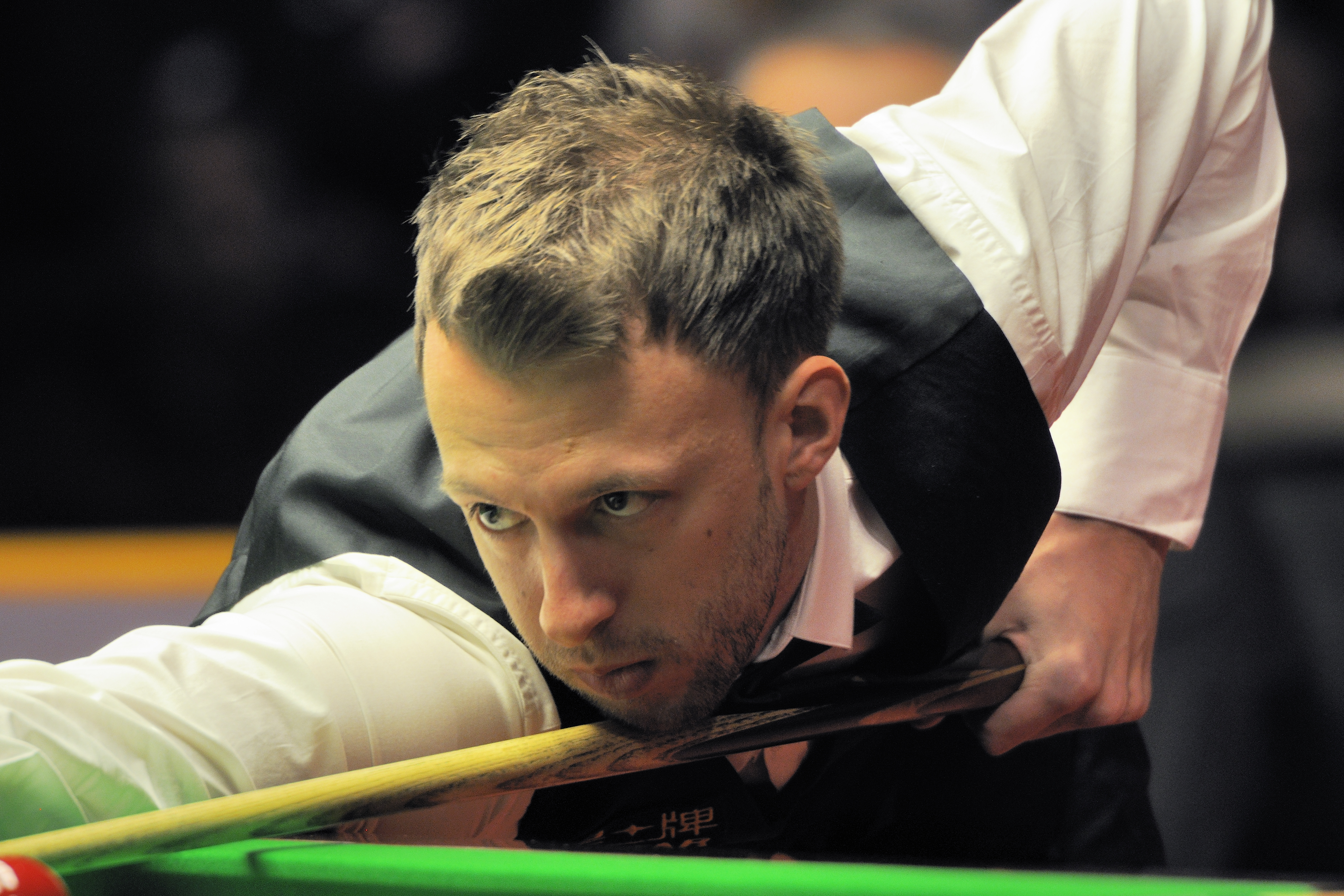 Picture taken in Berlin during the Snooker German Masters in 2014. Judd Trump.